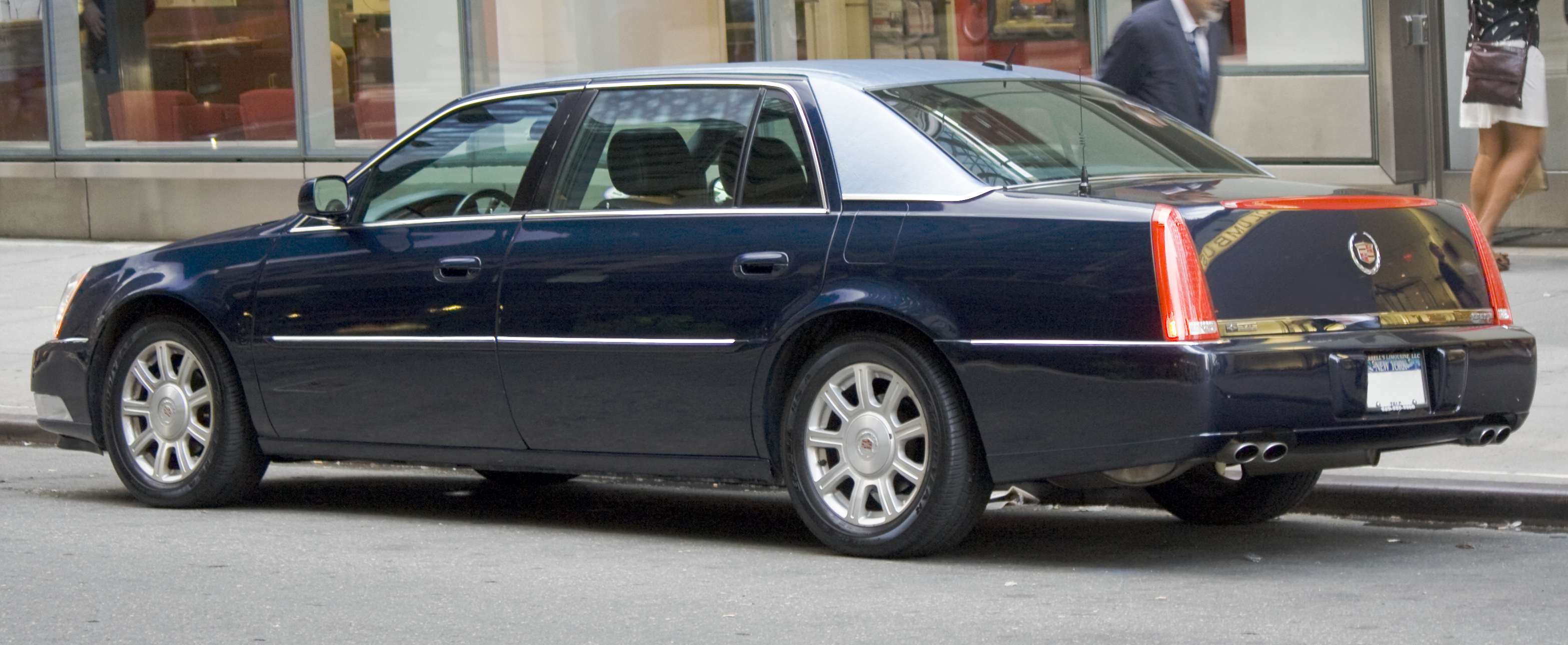 Rear view of 2008 Cadillac DTS-L, facelifted version (longer rear door) of a lightly stretched DTS which was originally available from November 2006. These were built by Accubuilt (Superior) at Cadillac's behest.